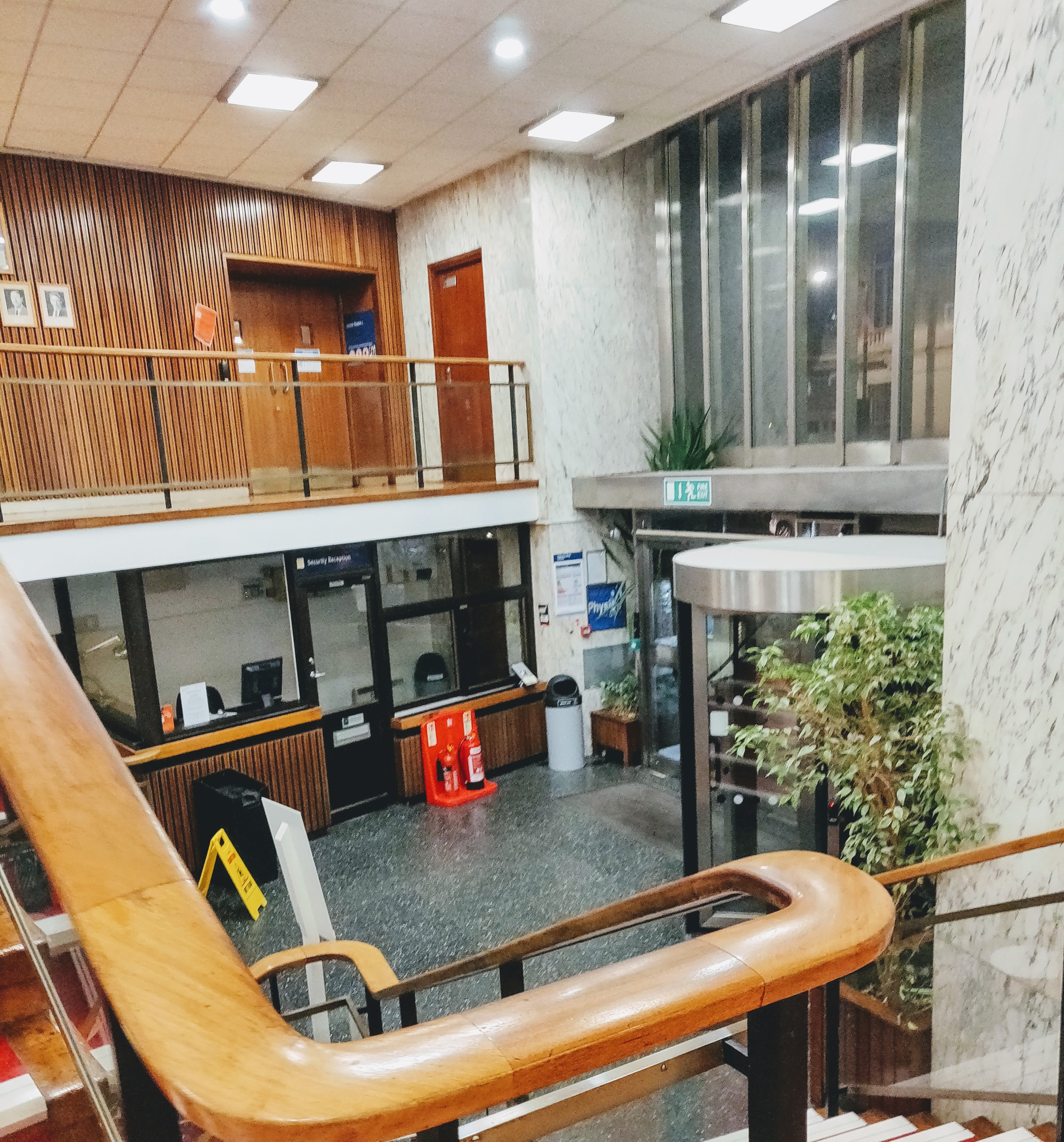 The entrance hall of the Blackett Laboratory at Imperial College London. This entrance is off Prince Consort Road.